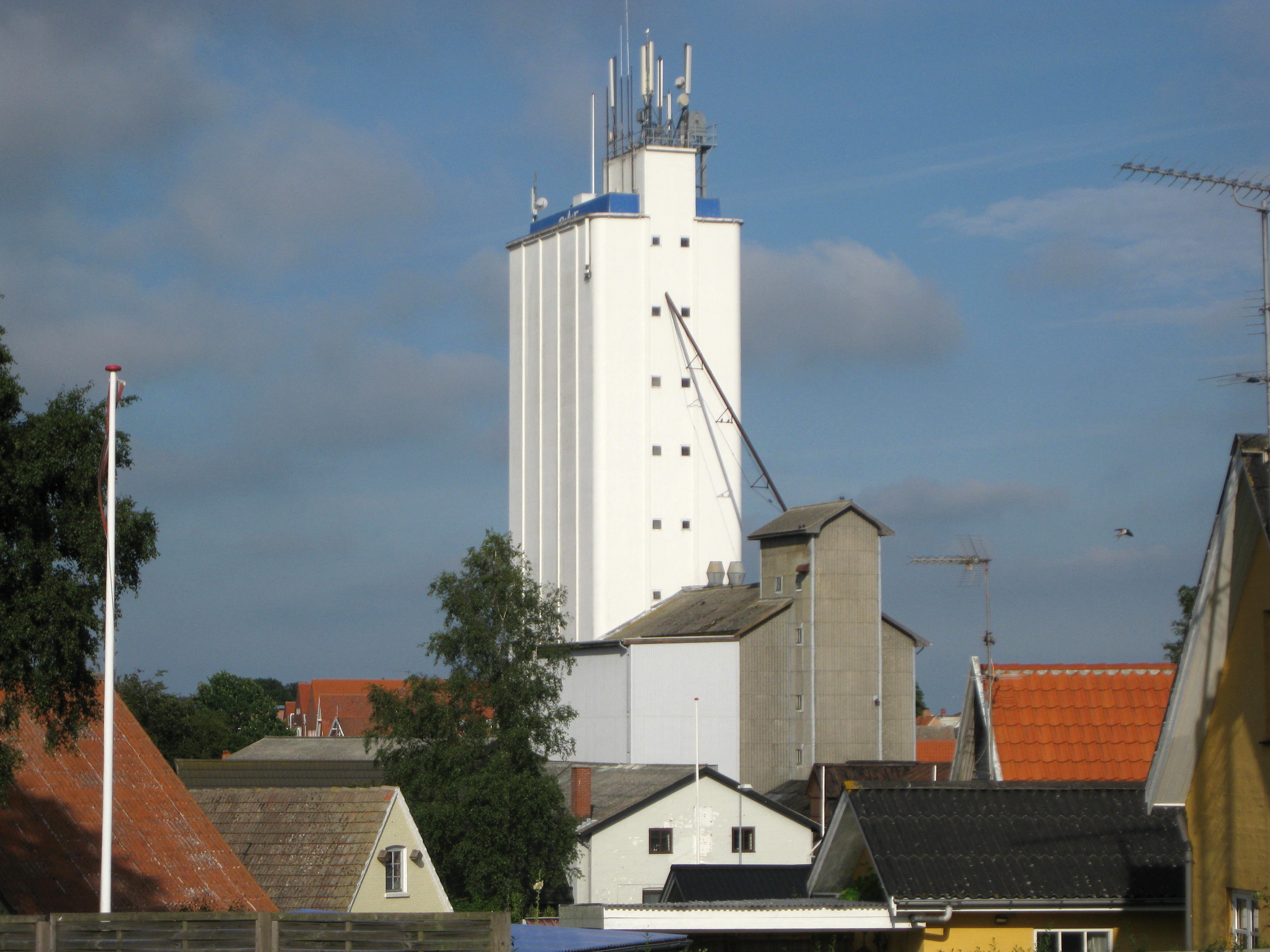 A silo of the small town "Klemensker". The town is located on the island Bornholm in east Denmark.